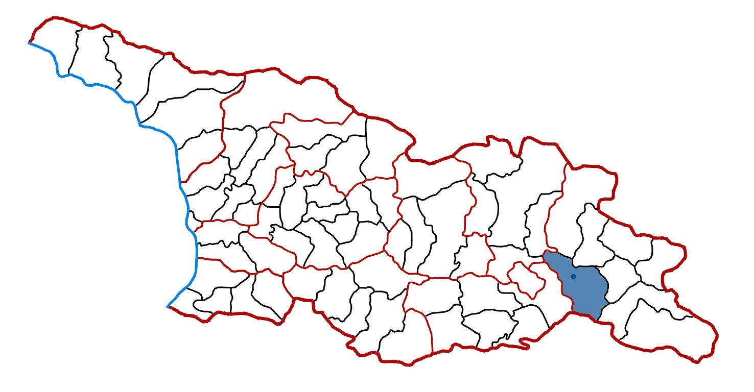 Location of Sagarejo district in Georgia